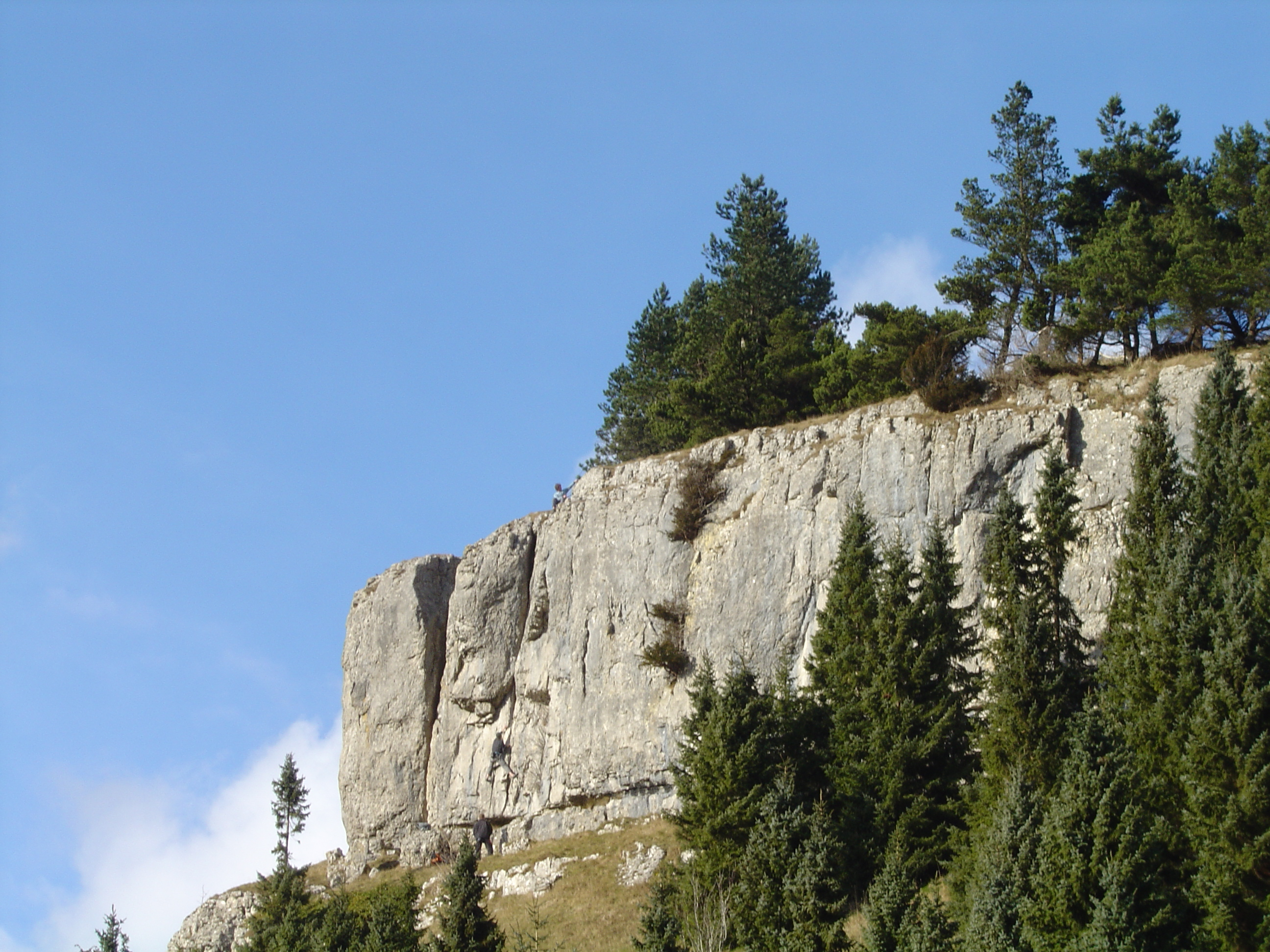 World's End, North Wales